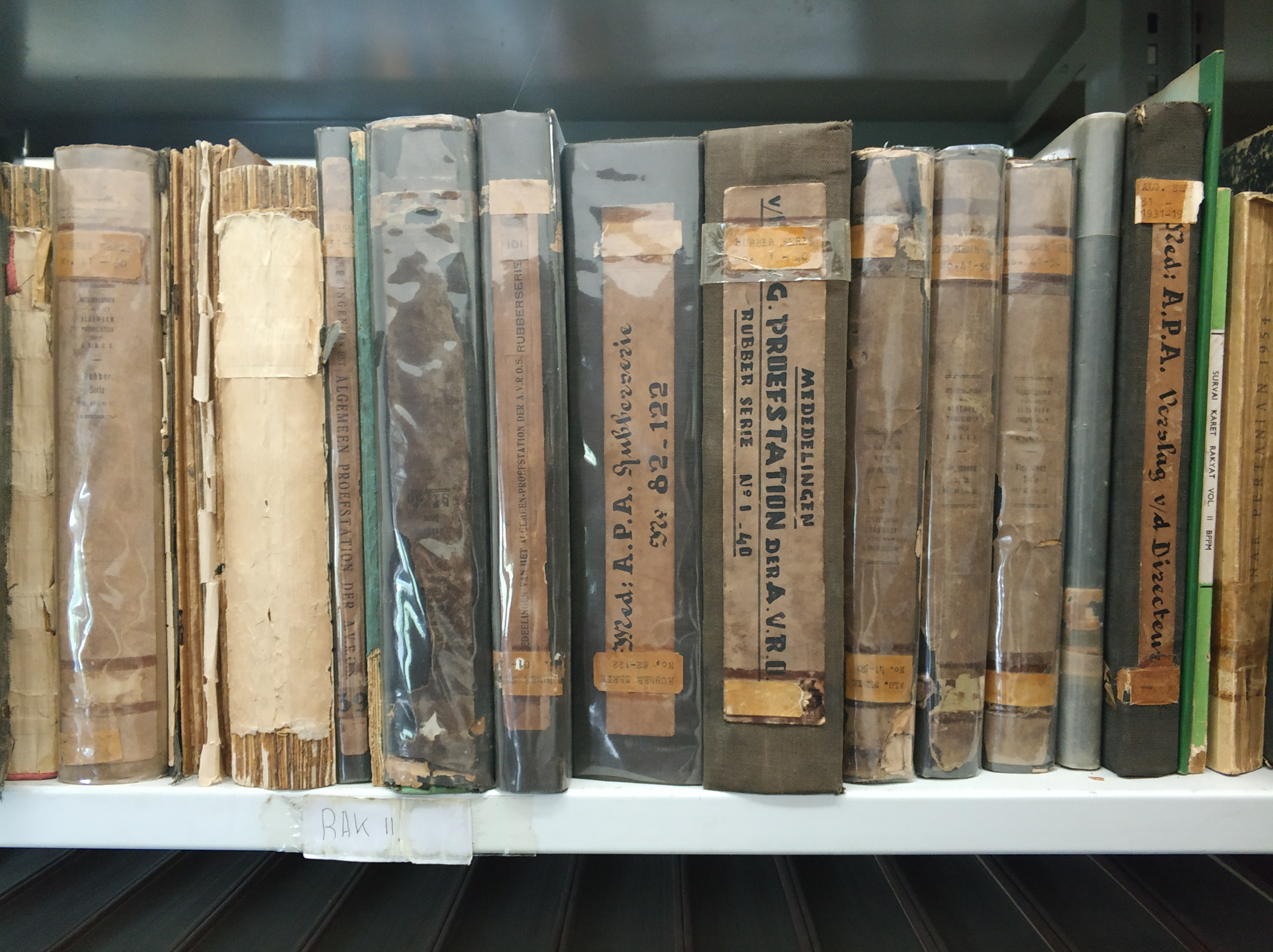 Mededelingen van het Algemeen Proefstation der A.V.R.O.S. Algemeene Series from Perpustakaan PPKS' collections